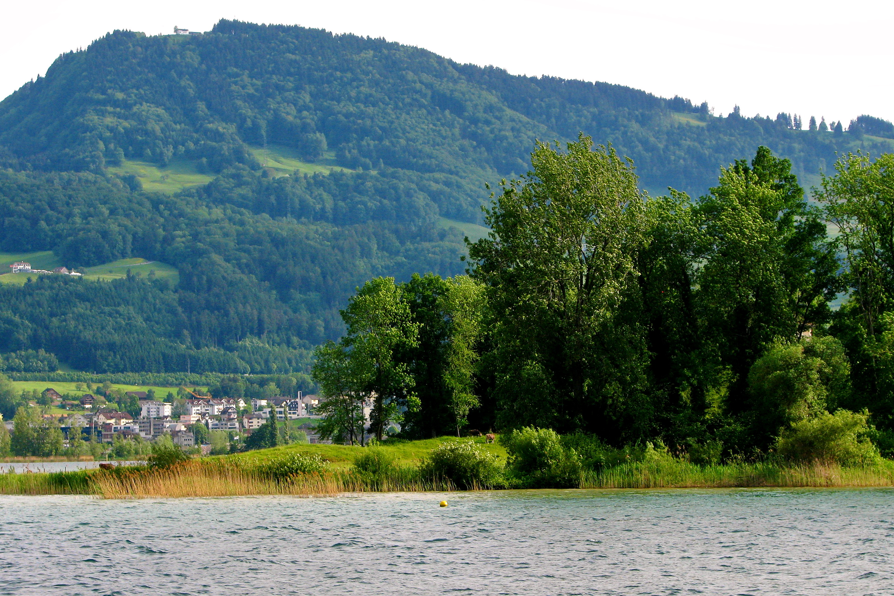 Etzel mountain and Freienbach (SZ), as seen from Zürichsee, Ufenau in the foreground